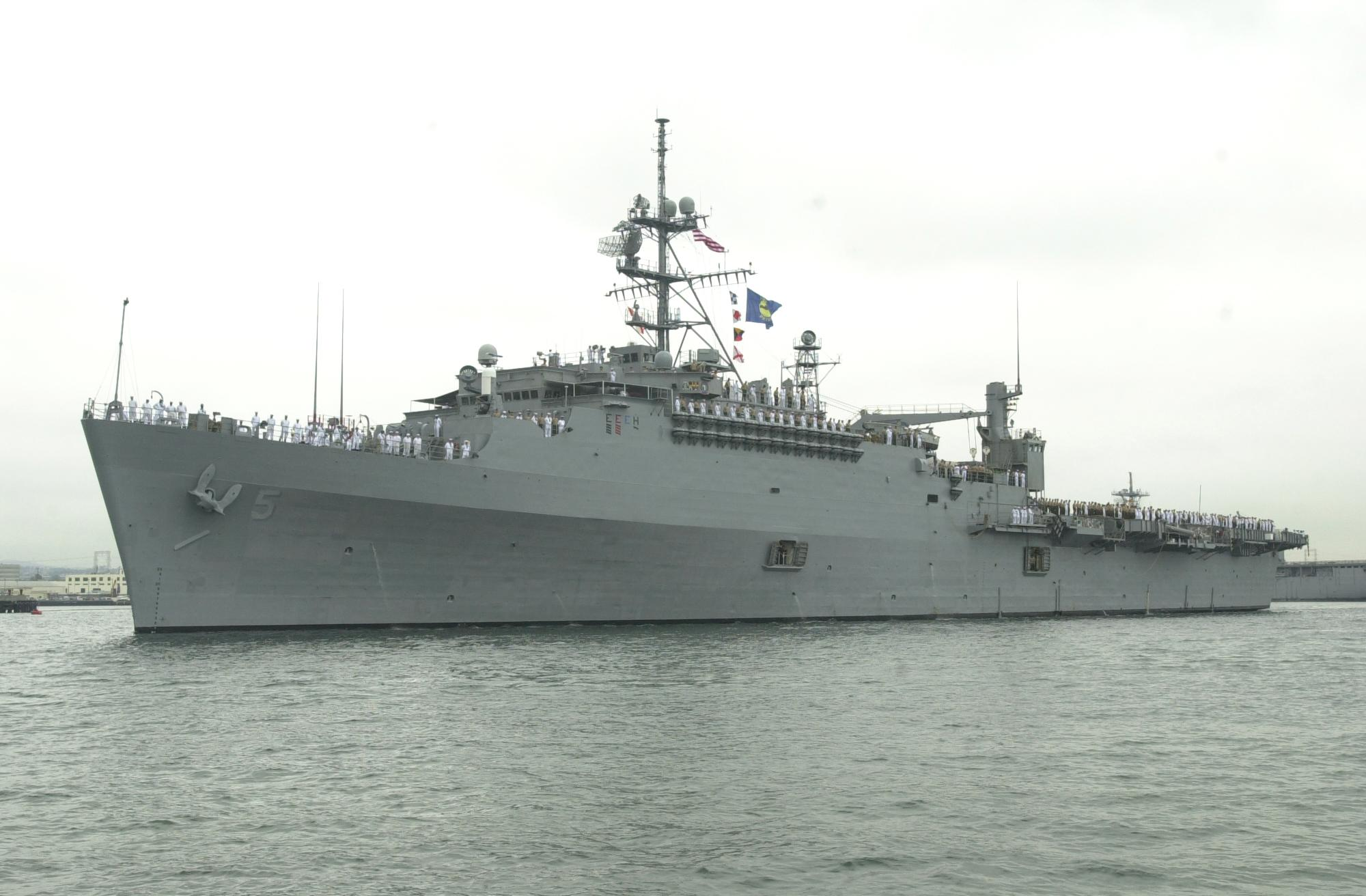 030822-N-9885M-008 San Diego, Ca. (Aug 22, 2003) -- USS Ogden (LPD 5) leaves Naval Station, San Diego to begin a regularly scheduled deployment. The 569-foot-long amphibious warfare ship is part of the first Expeditionary Strike Group (ESG-1). An ESG constitutes a new naval strike force designed to equip amphibious forces with added firepower and operational capabilities. The seven ships of ESG-1 include, the Ogden, USS Peleliu (LHA-5), USS Jarrett (FFG-33), USS Germantown (LSD-42), USS Port Royal (CG-73), USS Decatur (DDG-73), and USS Greeneville (SSN-772). The amphibious landing dock ship is named after the great city of in Utah and was commissioned on June 16, 1965.